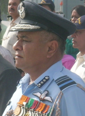 Head and shoulders photograph of Air Marshal Pradeep Vasant Naik (now Air Chief Marshal).